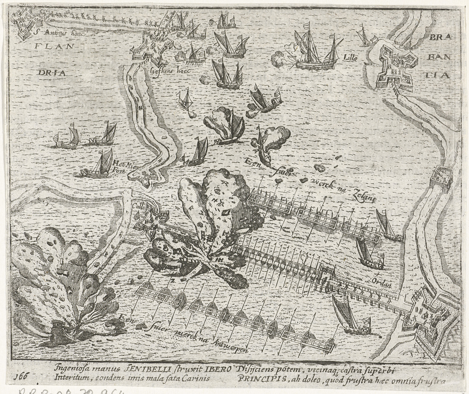 Attack on Parma's bridge 5 april 1586. Schipbrug van Parma over de Schelde opgeblazen, 5 april 1585.